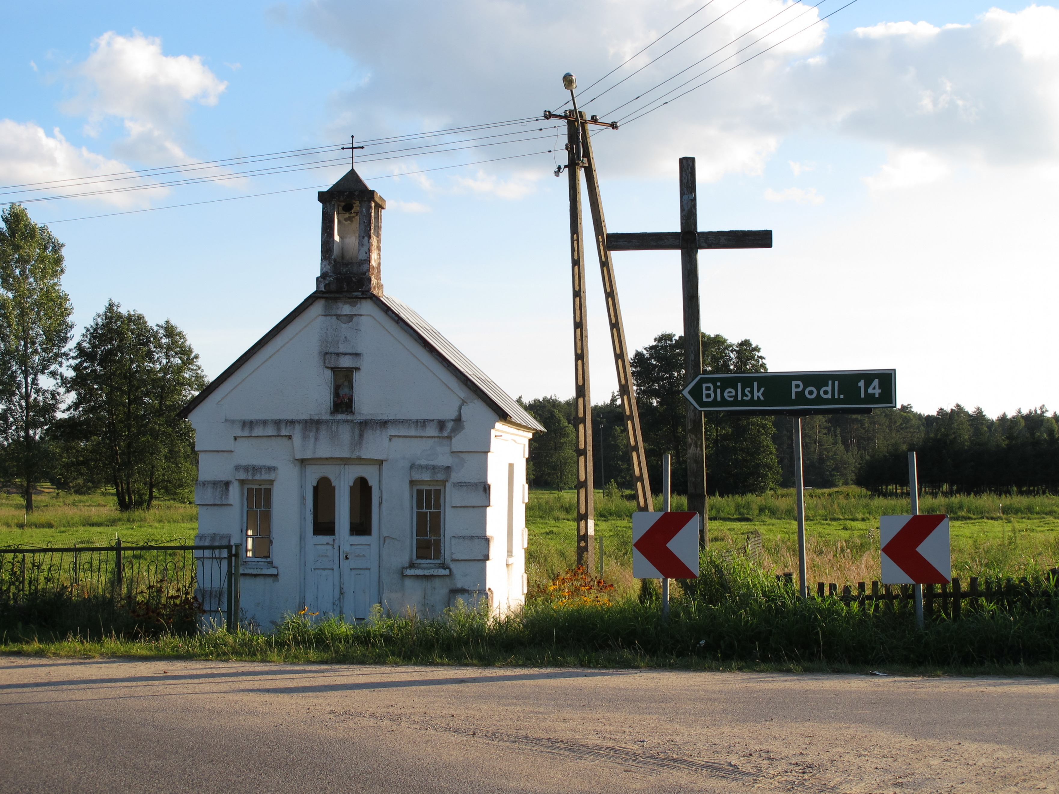 Mulawicze, gmina Wyszki, podlaskie, Poland